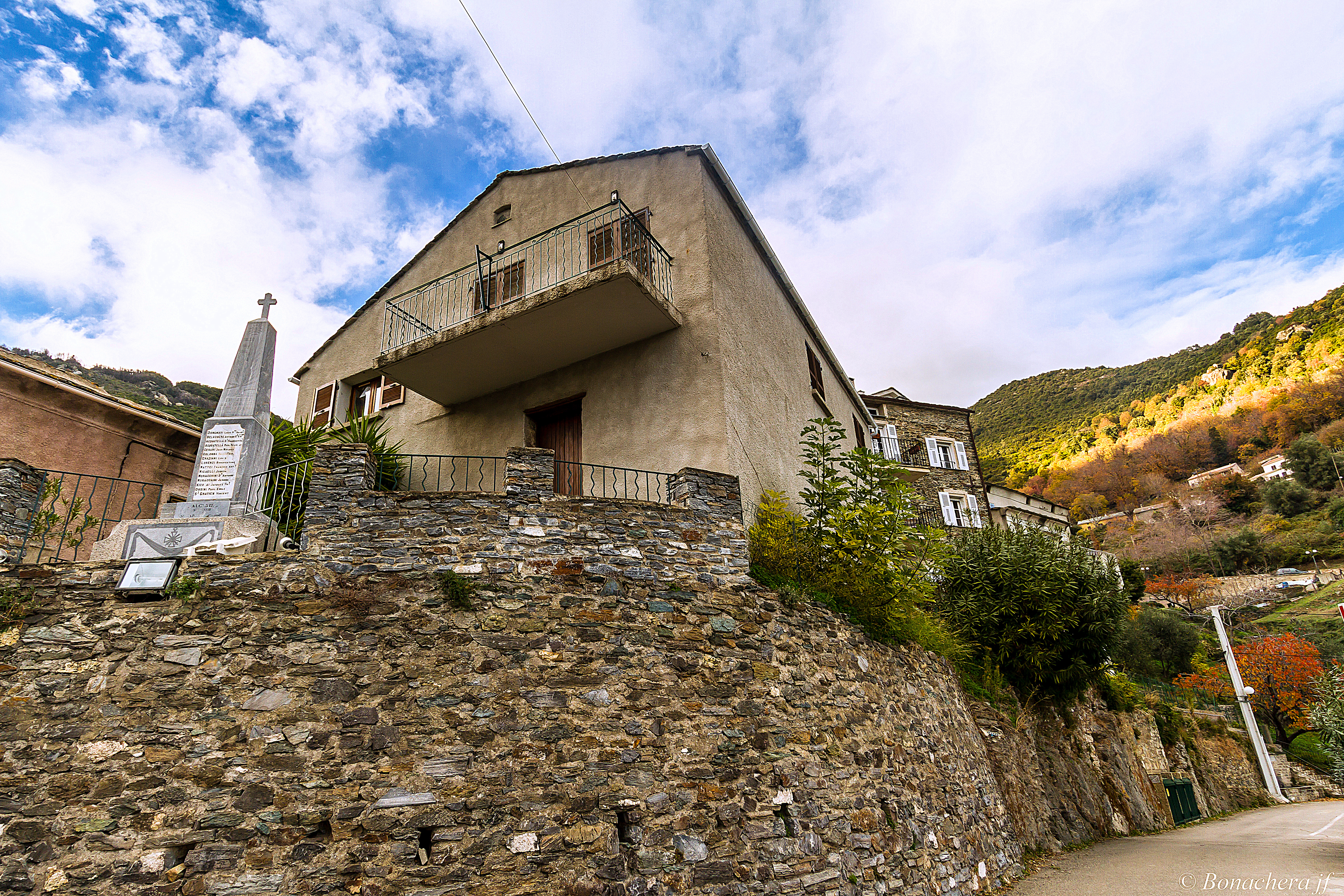 Vignale: le monument aux morts et la mairie